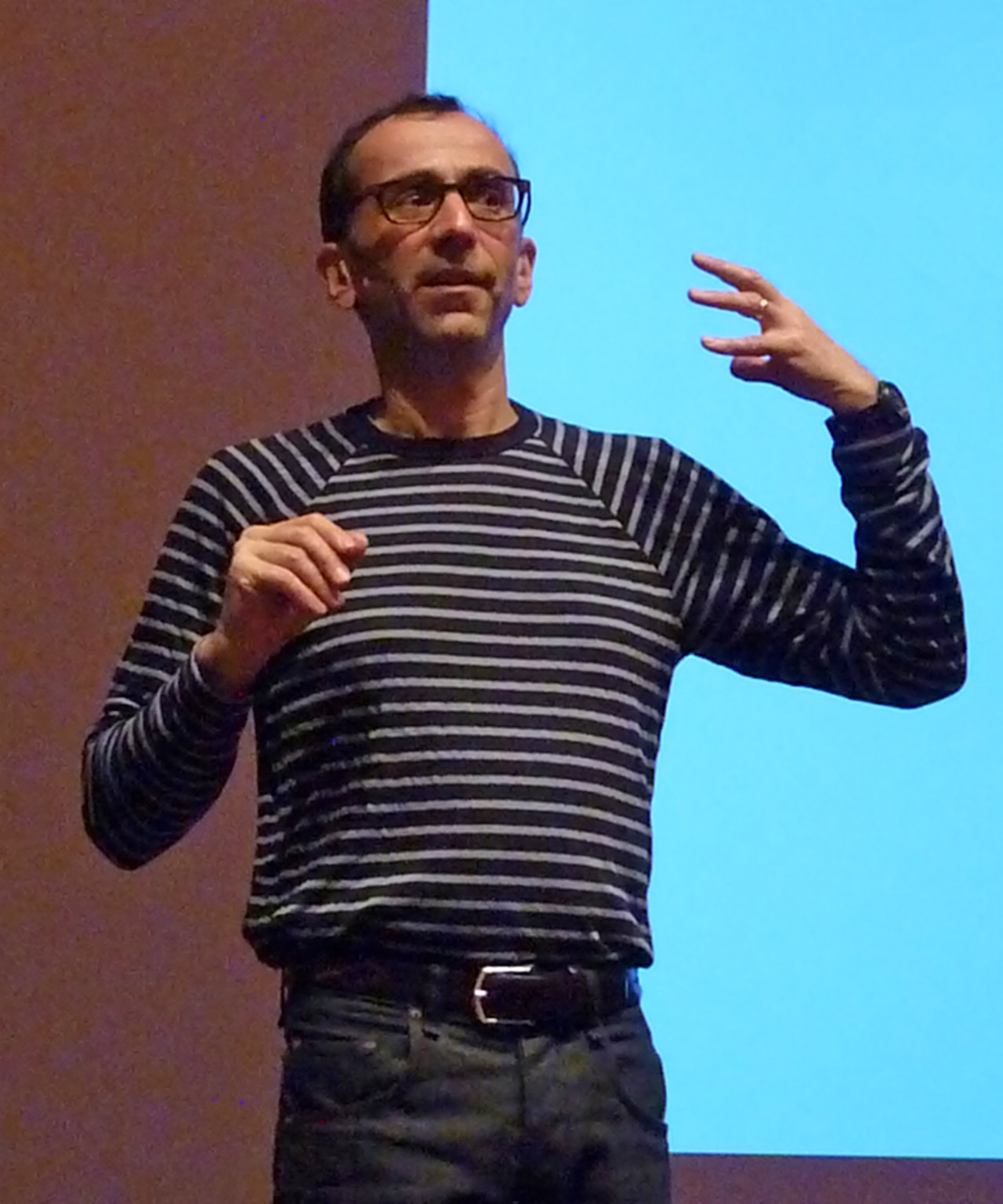 Nicholas Mirzoeff responding to an audience member question following his guest lecture "The Right to Look: Or, Why We Occupy" at the University of Wisconsin-Madison on April 24, 2012.